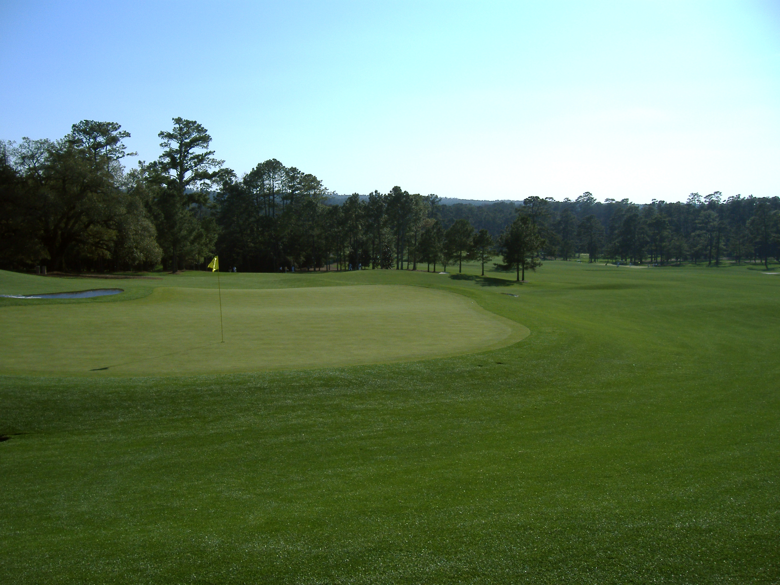 18th Green, Augusta National Golf Club